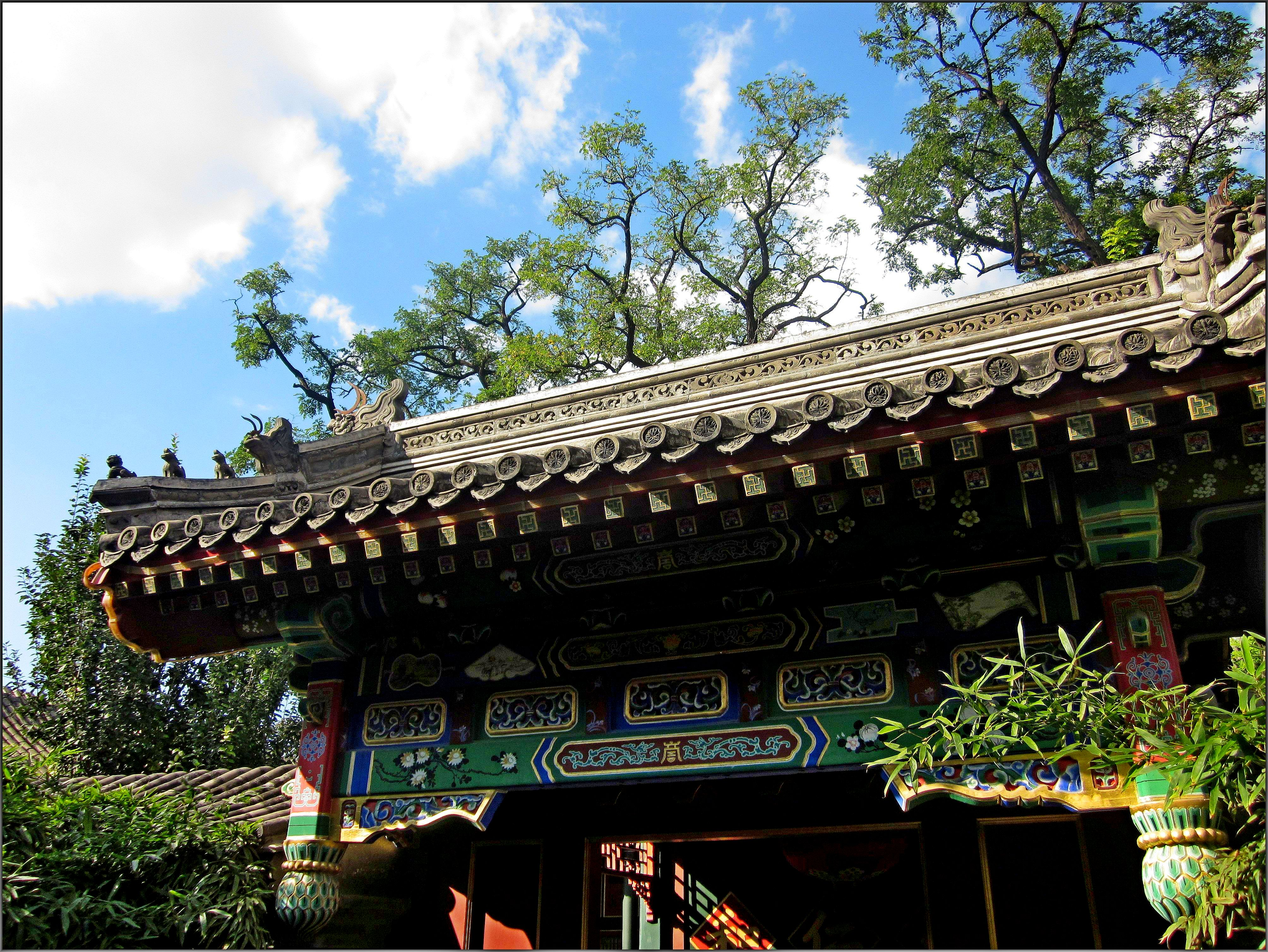 October Bei Hai Beijing China - Master Asia Photography 2014